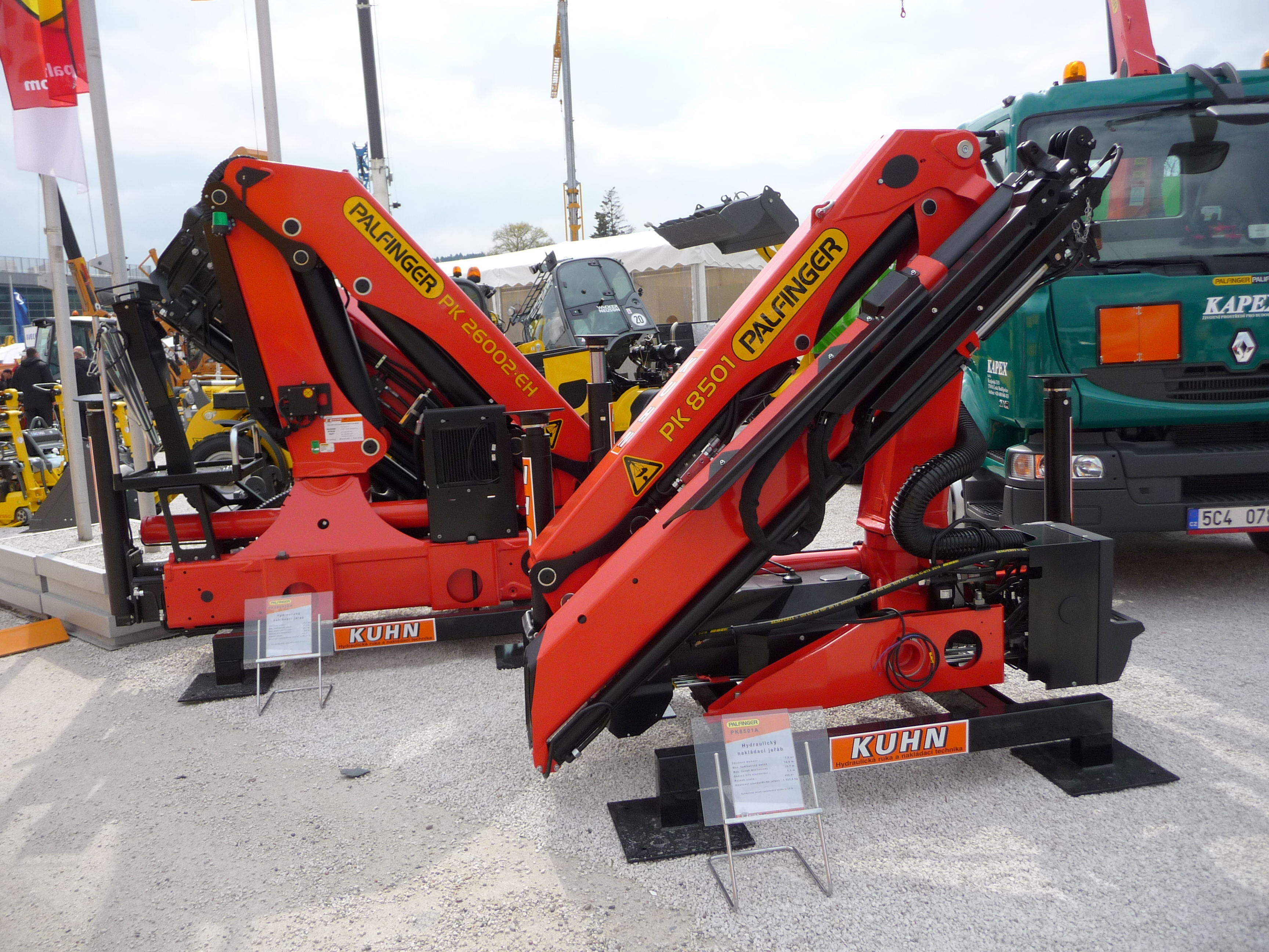 Hydraulic loader crane Palfinger PK8501, Building Fairs Brno 2011 -10-5-3-2◄►+2+3+5+10